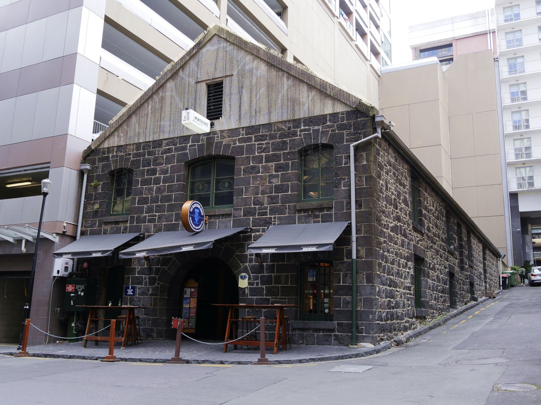 Bluestone Store Building, 9-11 Durham Lane, Auckland, New Zealand, build 1861